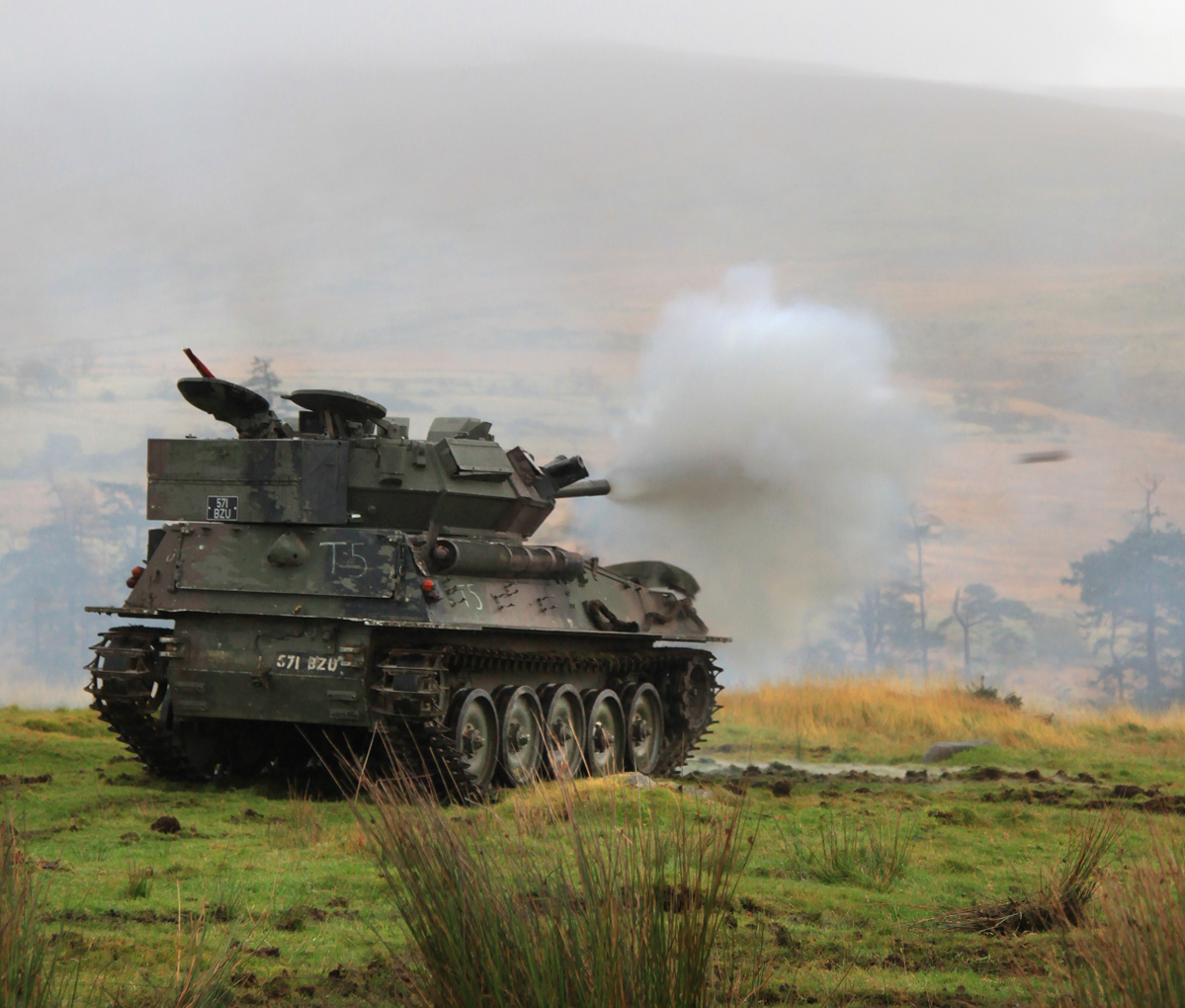 Scorpion Shoot Glen of Immal (2)